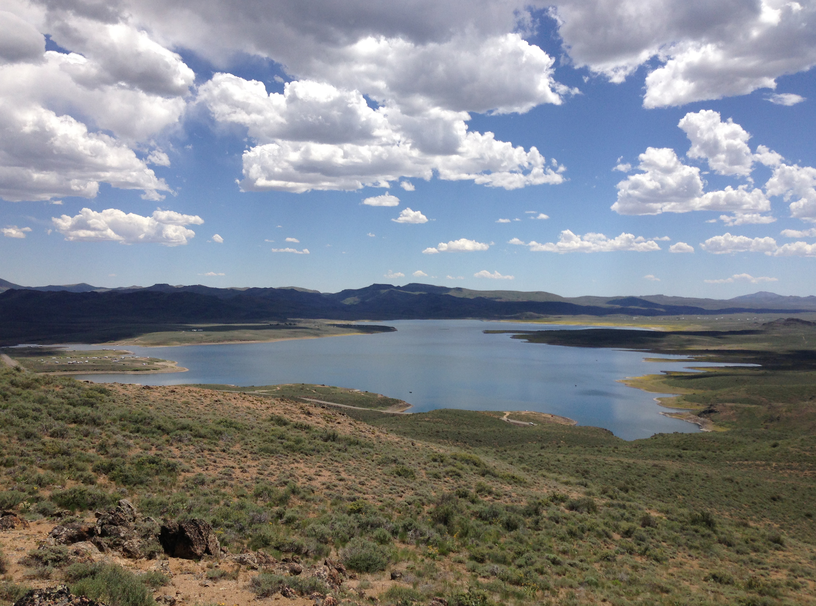 View southeast across Wild Horse Reservoir, Nevada